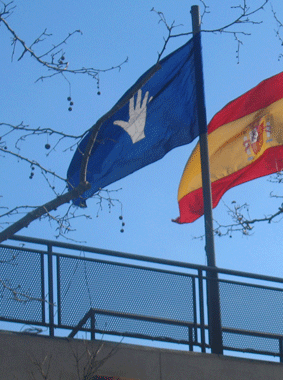 Flag of Esplugues de Llobregat